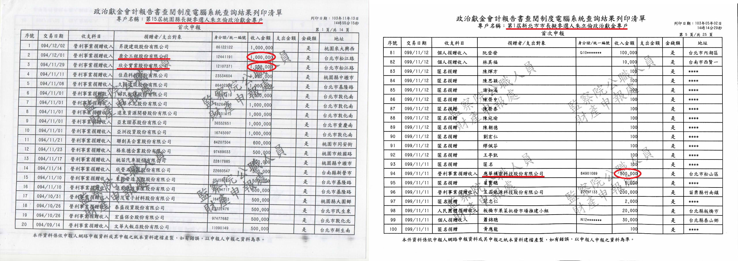 朱立倫參選桃園縣長及新北市長收受政治獻金表